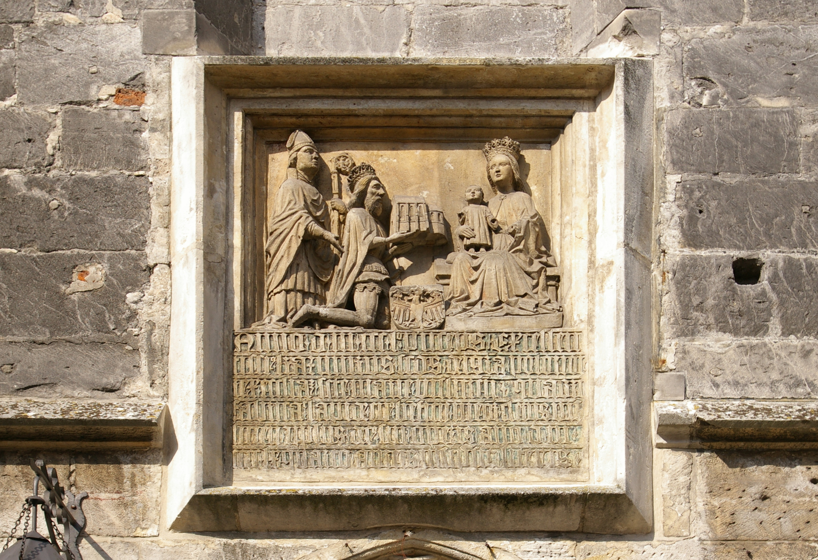 Foundation plaque with king Casimir III The Great (Basilica in Wiślica)